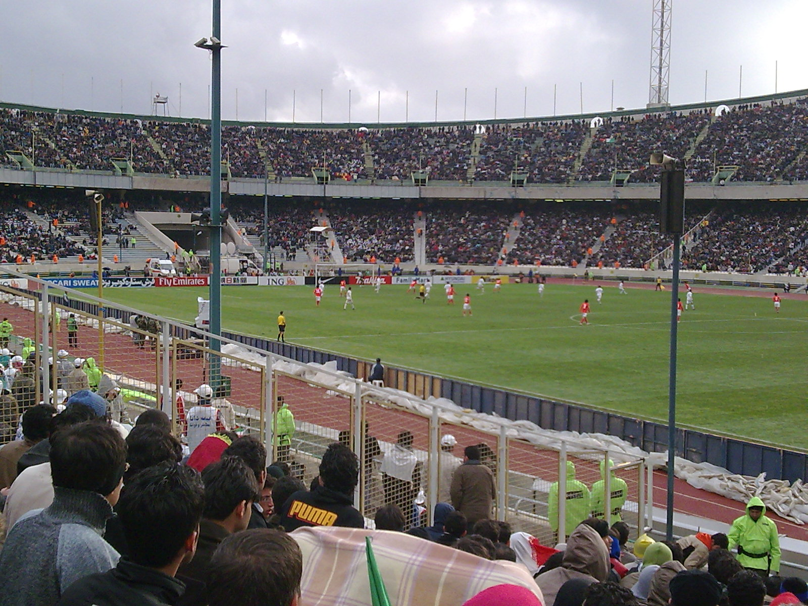 11 February 2009 Iran 1 – 1 South Korea Azadi Stadium, Tehran